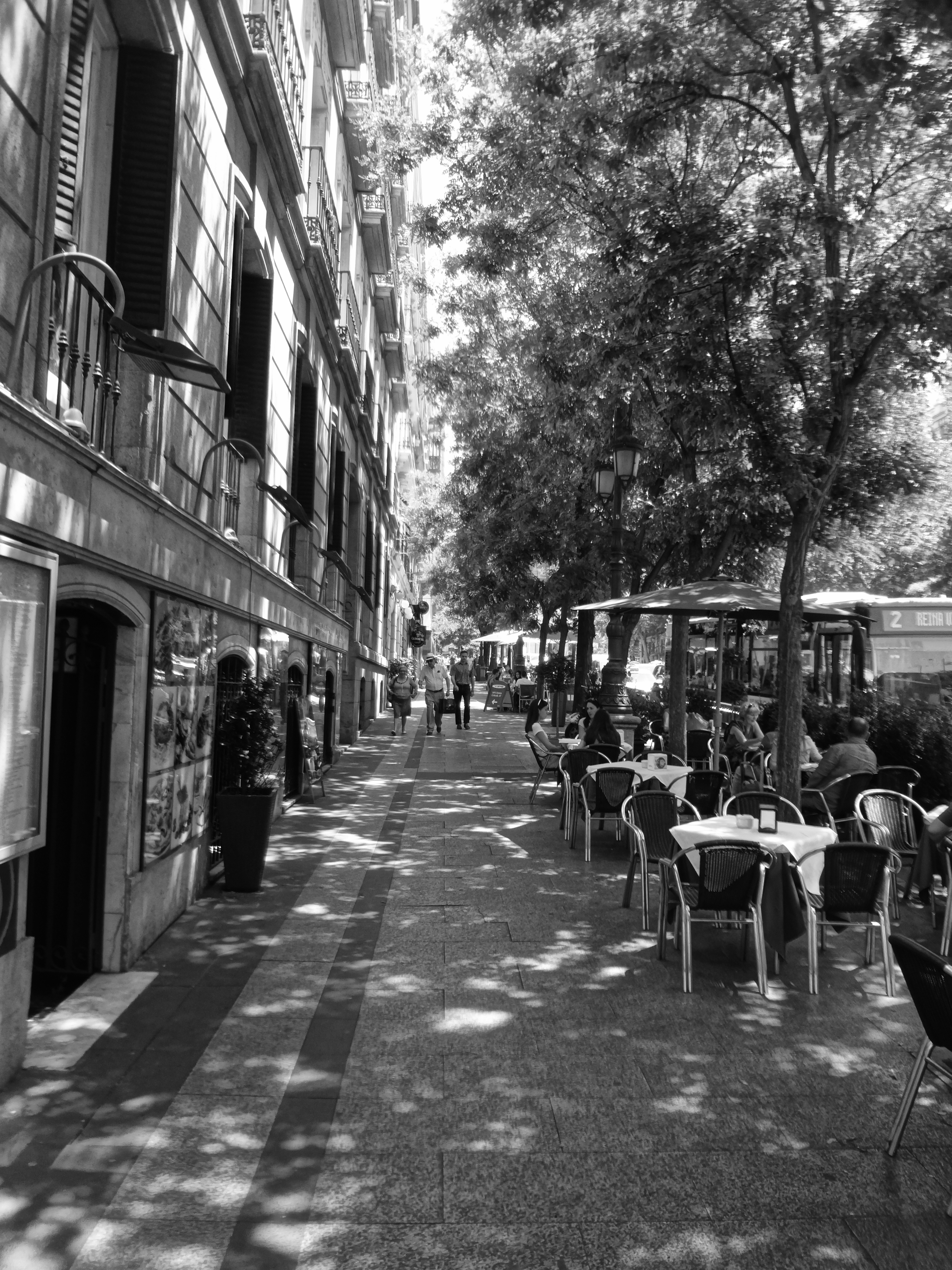 (Madrid) in the summer at an outside cafe with tapas y vino, Black and white photographs by David Adam Kess